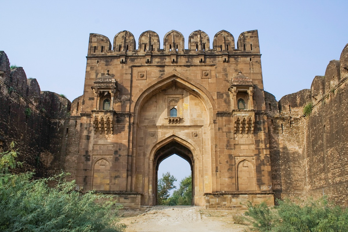 Rohtas Fort This is a photo of a monument in Pakistan identified as the PB-30